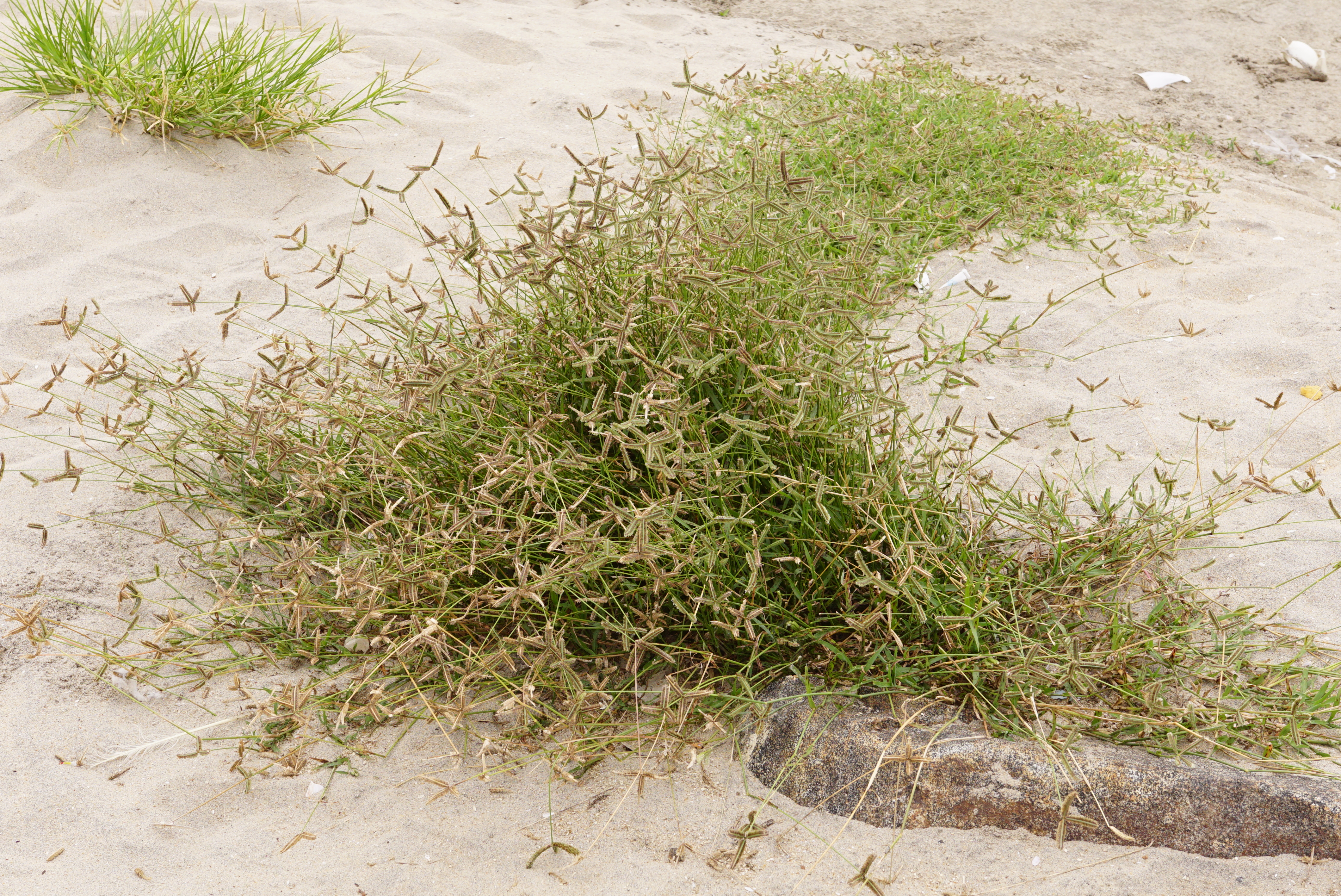 Dactyloctenium aegyptium